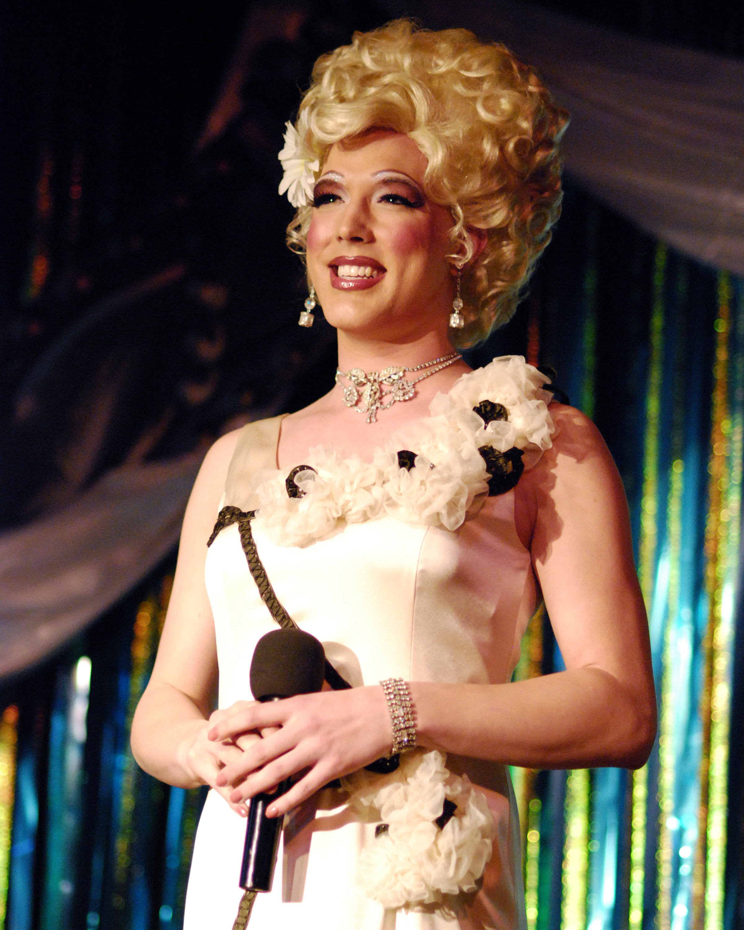 A drag queen, Daisy Buckët ('bouqet') from Kansas City, performing on stage at club Missie B's.